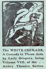 The cover of Augusta, Lady Gregory's 1905 play The White Cockade